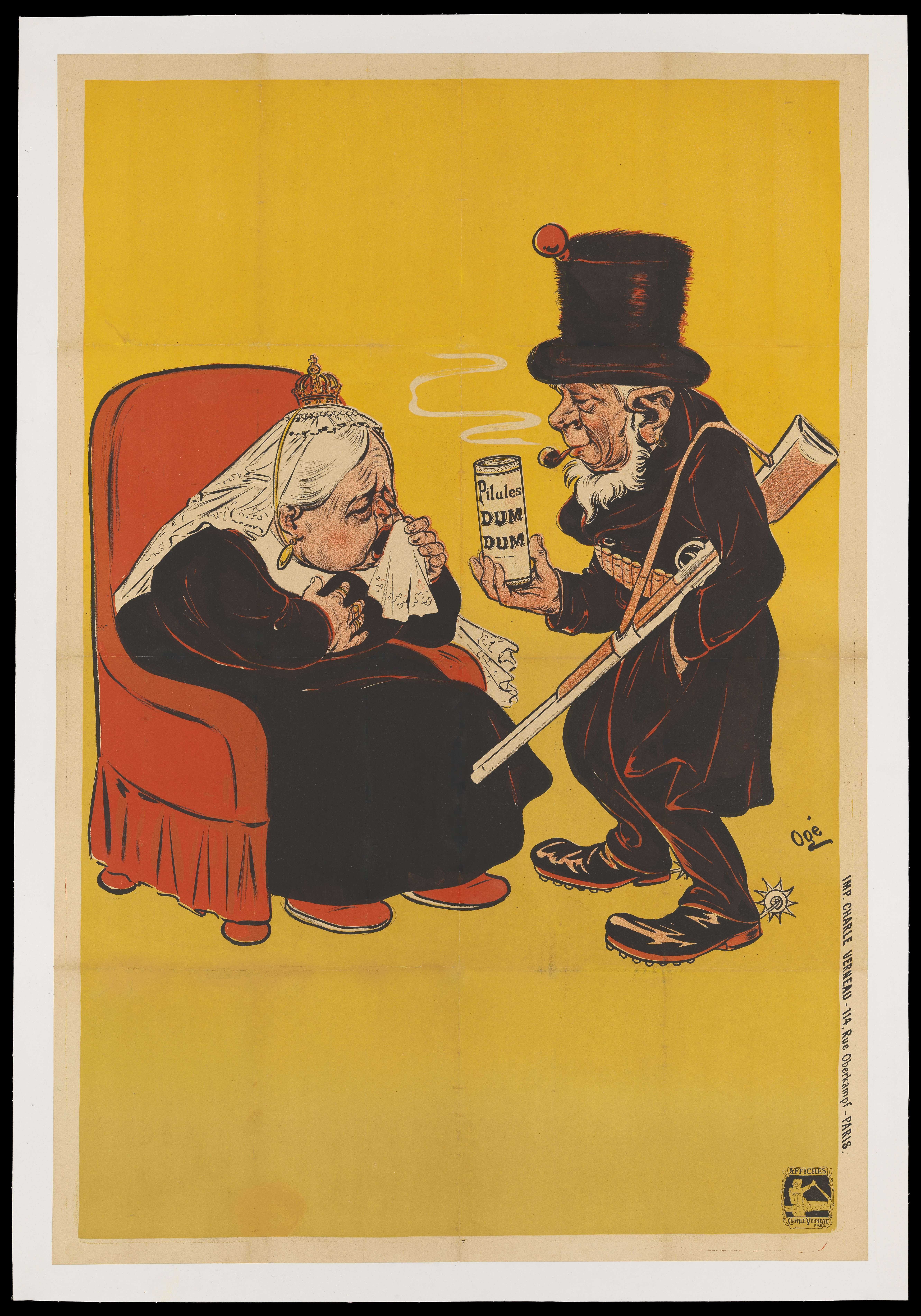 Paul Kruger offering "Dum-dum" pills to Queen Victoria. Colour lithograph by E. Ogé, ca. 1900 Lettering note: Bears logo of Affiches Charle Verneau: a printer using a hand-press Note: Published in two versions, one with text above and below advertising pills marketed under the name of Doctor Trabant (published in January 1900 and banned by the French government) and one (the present version) with no reference to any pharmacist. Which came first is not known: see Robert-Sterkendries, loc. cit. Iconographic Collections Keywords: Pilules Dum Dum.; Paul Kruger; name; Eughne Ogi